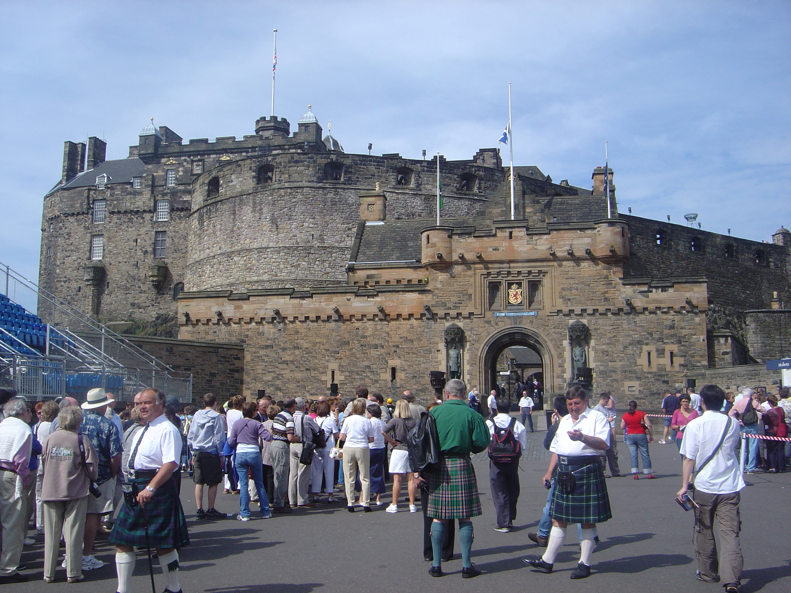 Edinburgh Castle seen from the esplanade (spectator seating being installed for the military tattoo)